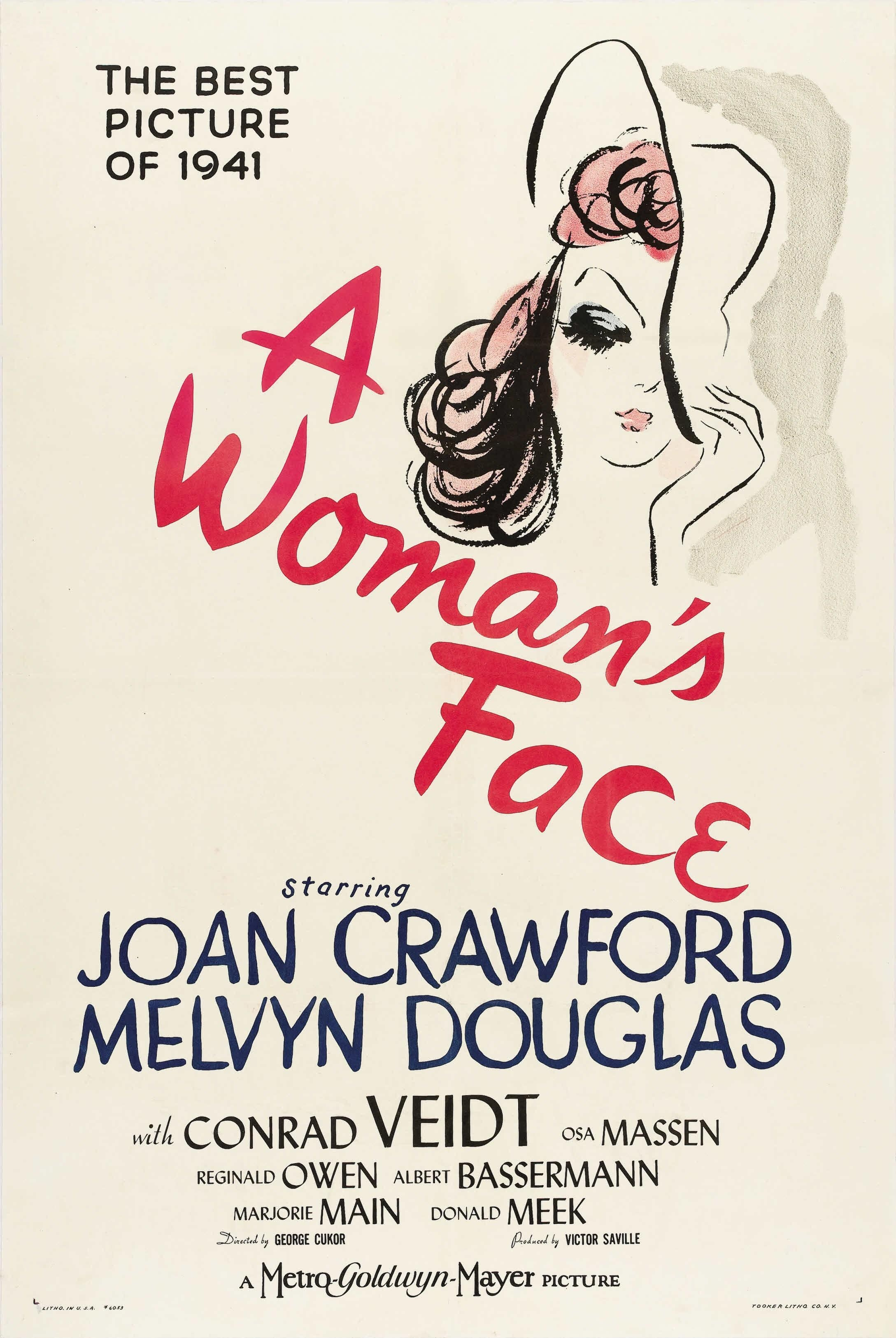 Poster for the 1941 film A Woman's Face. The item has no copyright markings on it as can be seen in the links above. At bottom is Litho in USA 6053, and Tooker Lith Co., NY--they printed the poster.